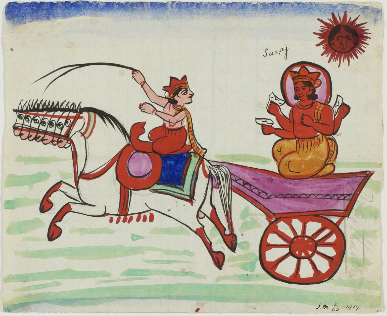 Object:Drawing Place of origin:Punjab, India (made) Date:late 19th century (made) Artist/Maker:unknown (production) Materials and Techniques:Brush drawing with colour wash on paper Museum number:IM.2:65-1917